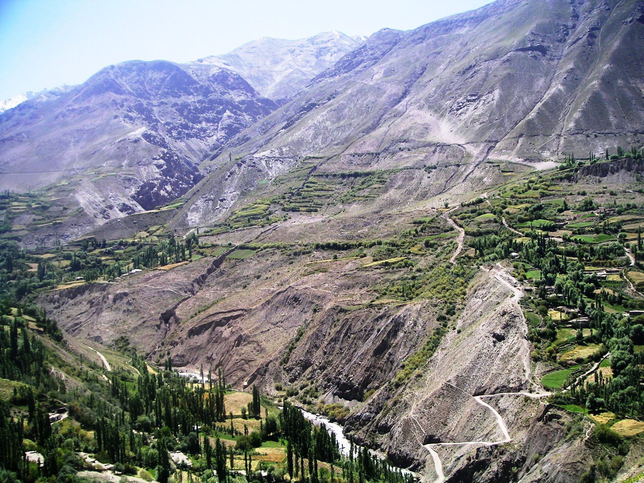 A beautiful view of Andraghach Valley Khot Torkhow District Chitral NWFP Pakistan photo by Rehmat Aziz Chitrali-- رحمت عزیز چترالی 05:09, 24 September 2012 (UTC)